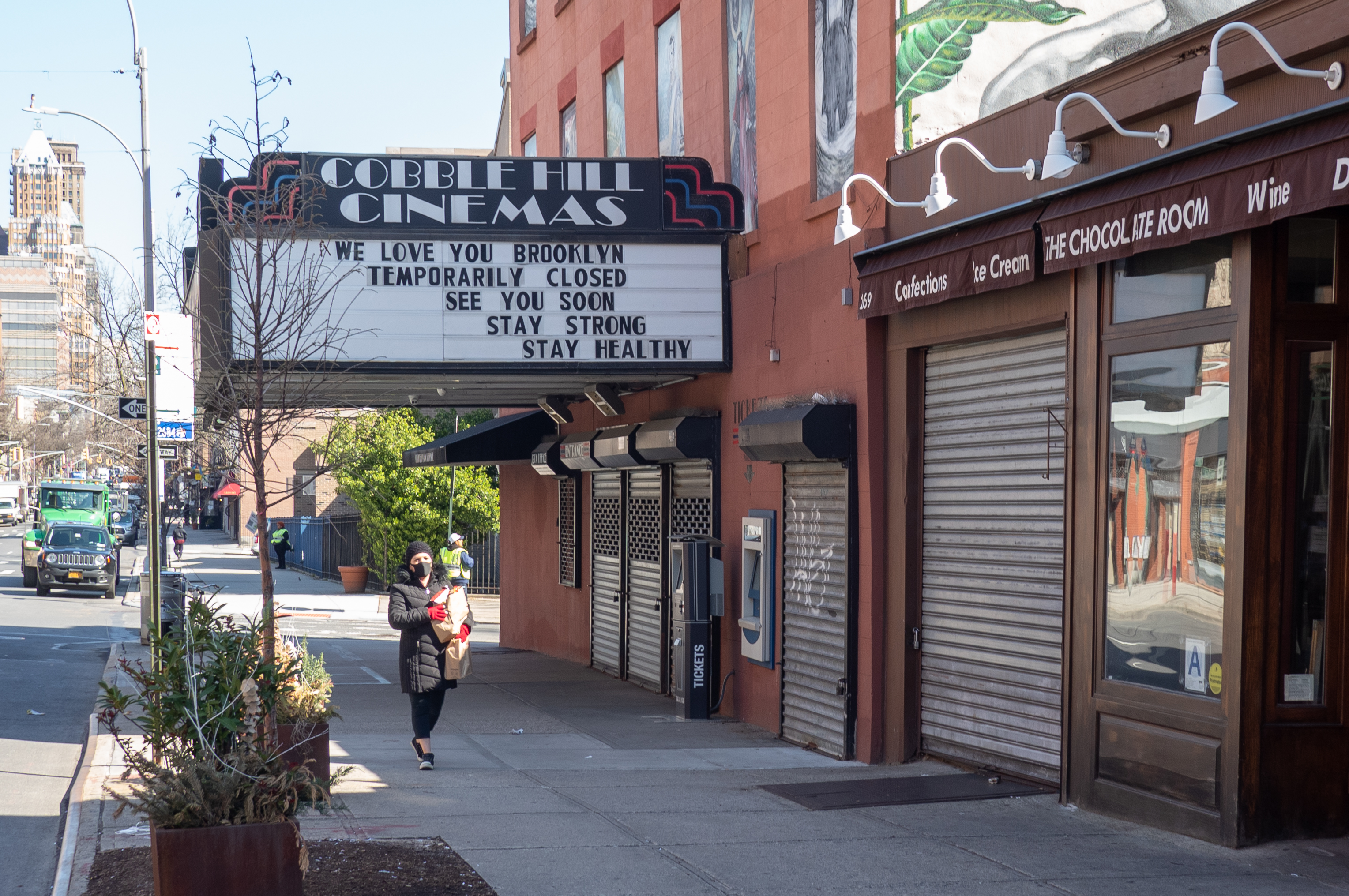 Theater marquee indicating closure during COVID-19, while woman with a mask walks underneath